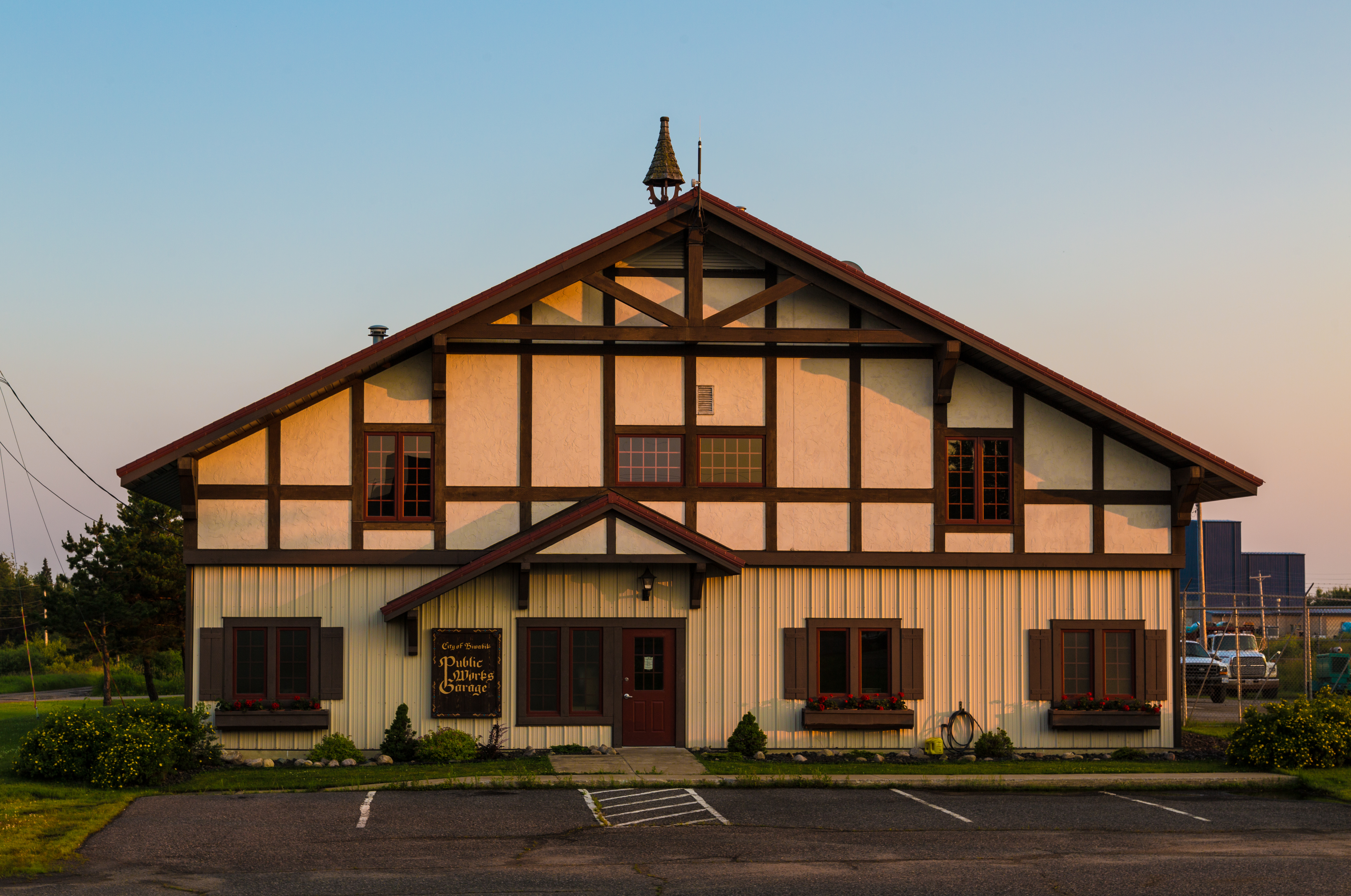 600 1st Street South in Biwabik, Minnesota.